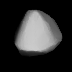 3D convex shape model of 898 Hildegard, computed using light curve inversion techniques. J. Hanuš, J. Ďurech, M. Brož, B. D. Warner (June 2011). "A study of asteroid pole-latitude distribution based on an extended set of shape models derived by the lightcurve inversion method". Astronomy and Astrophysics 530: A134. ISSN 0004-6361. arXiv